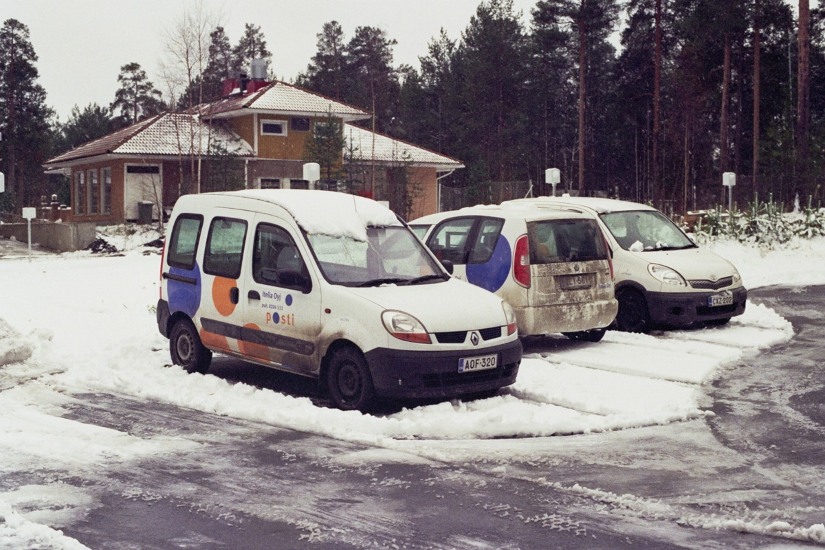 Post cars of Itella in Koskela, Oulu, Finland. From left to right: Renault Kangoo, unknown Skoda, and Toyota Yaris Verso.